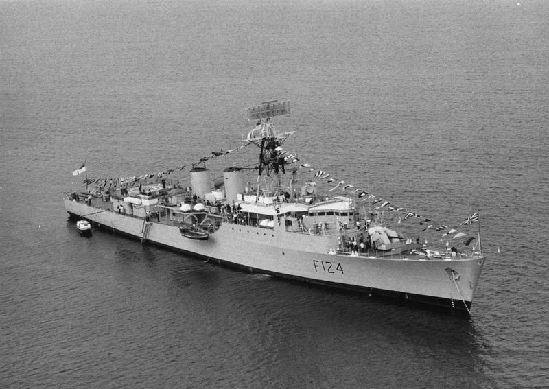 Tribal-class frigate HMS Zulu (F124) in Bangor Bay. July 1967 (IWM HU 130058)